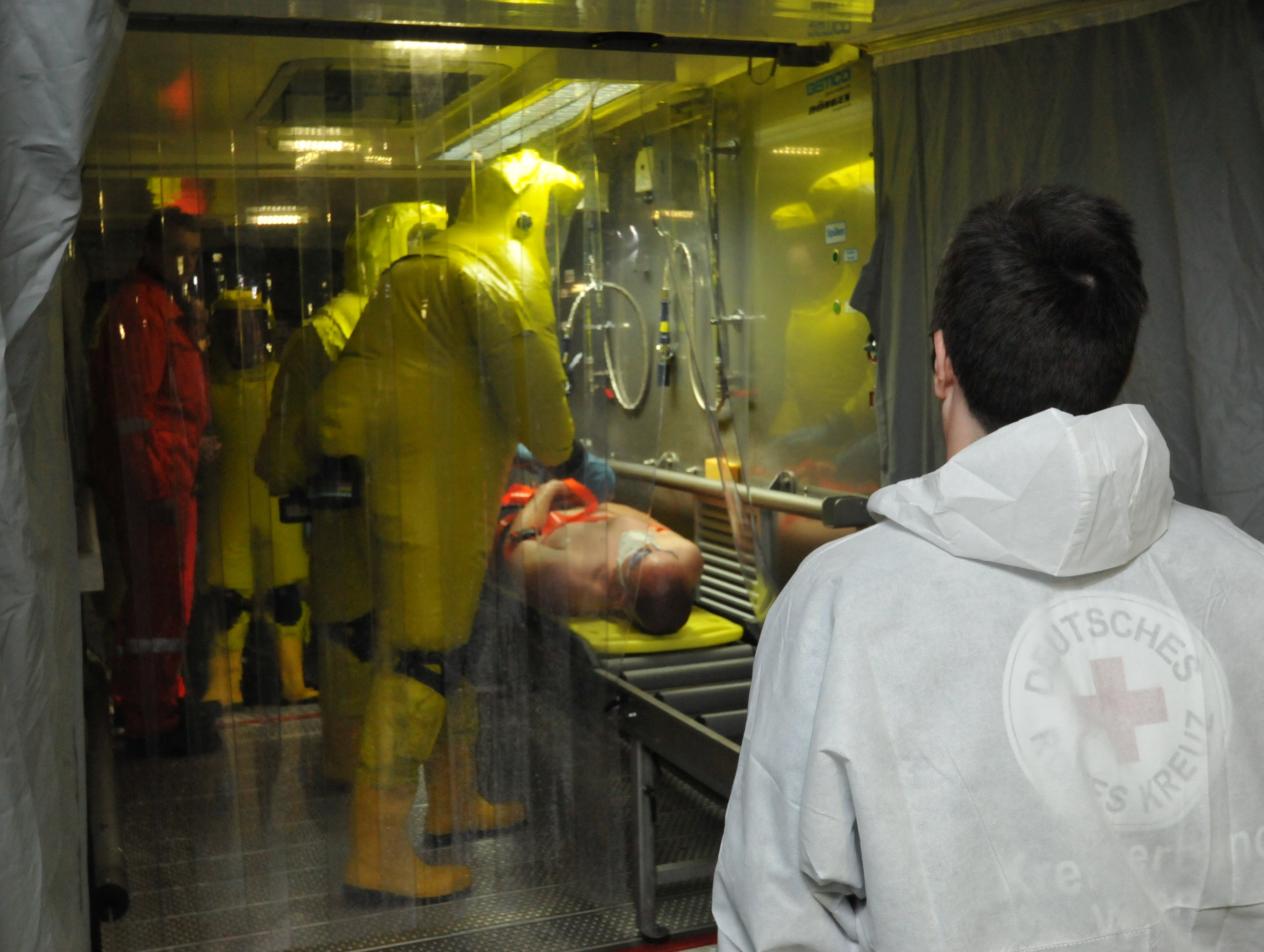 Decontamination of injured persons.(Drill)